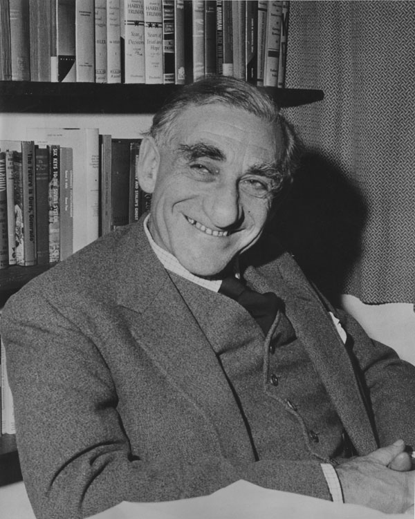 Leonard Scapiro circa 1970's